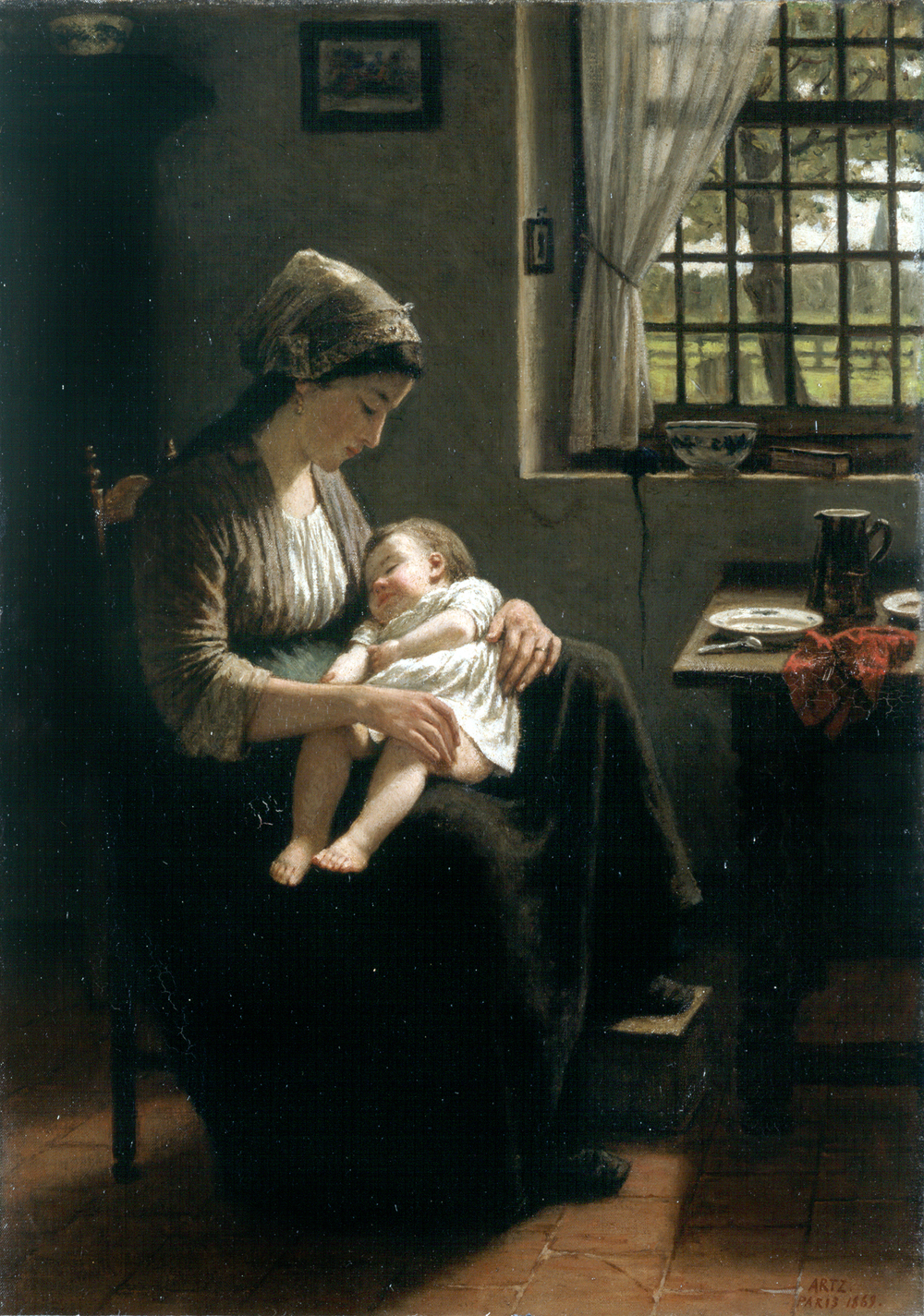 Moedergeluk